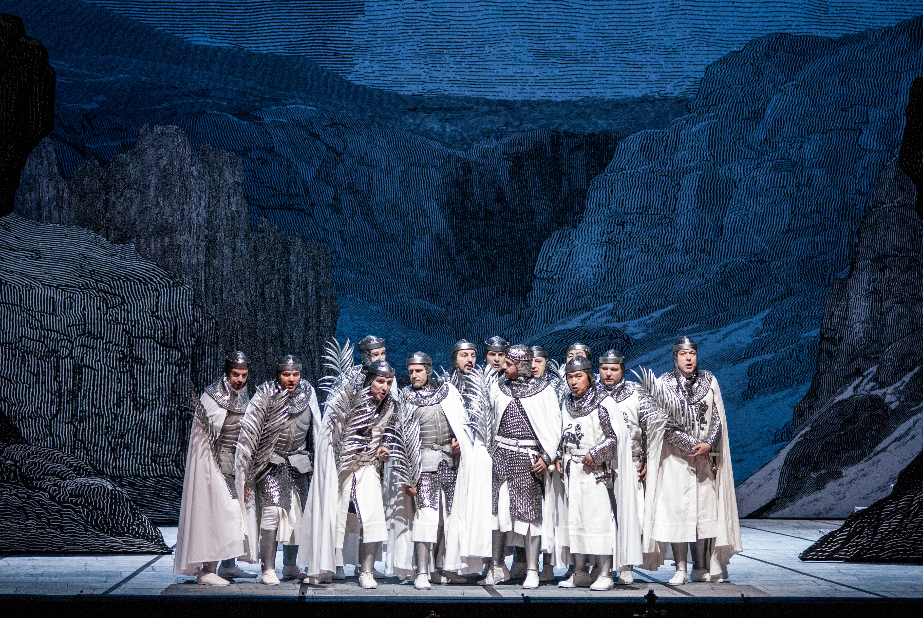 Fierrabras, Salzburger Festspiele 2014, directed by Peter Stein, with the Vienna State Opera Chorus